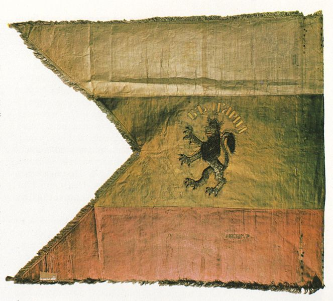 Flag made by Stiliana Parashkevova for the Bulgarian volunteers (Opalchentsi) in the Russo-Turkish War (1877–1878). Inscription in Bulgarian: България (In